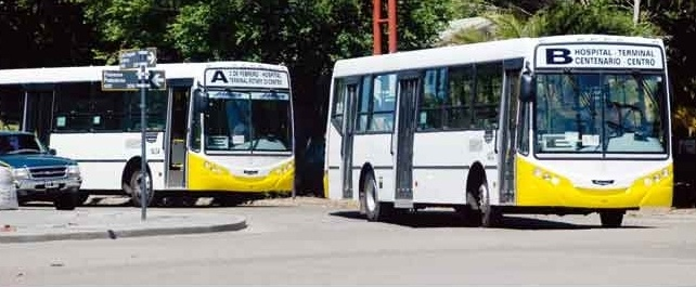 coches de discapacitados